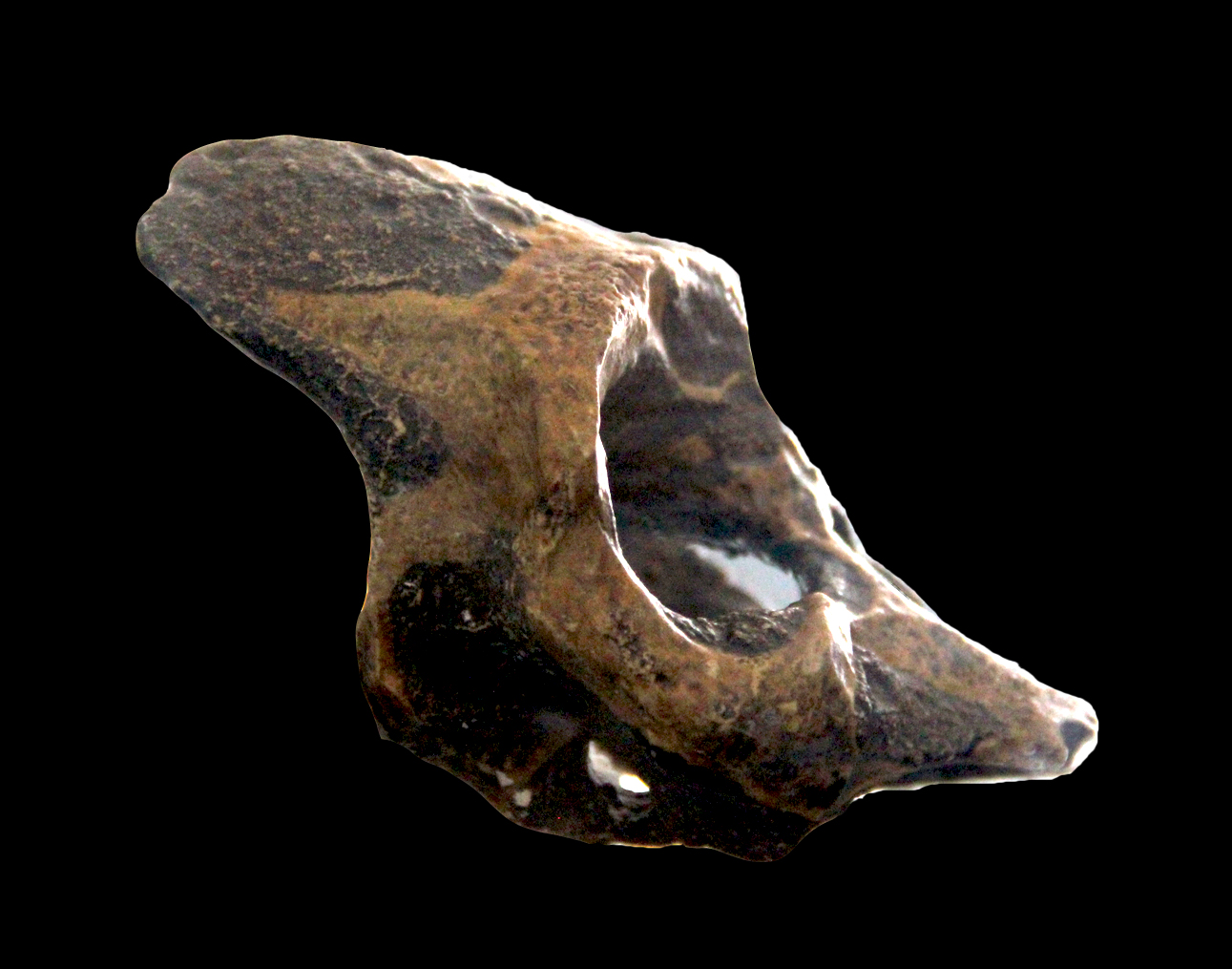 cast of the fossil used to define Tchadanthropus uxoris as presented in N'Djamena Museum, Chad; side view NB : the cast is shown as orientated in the Museum